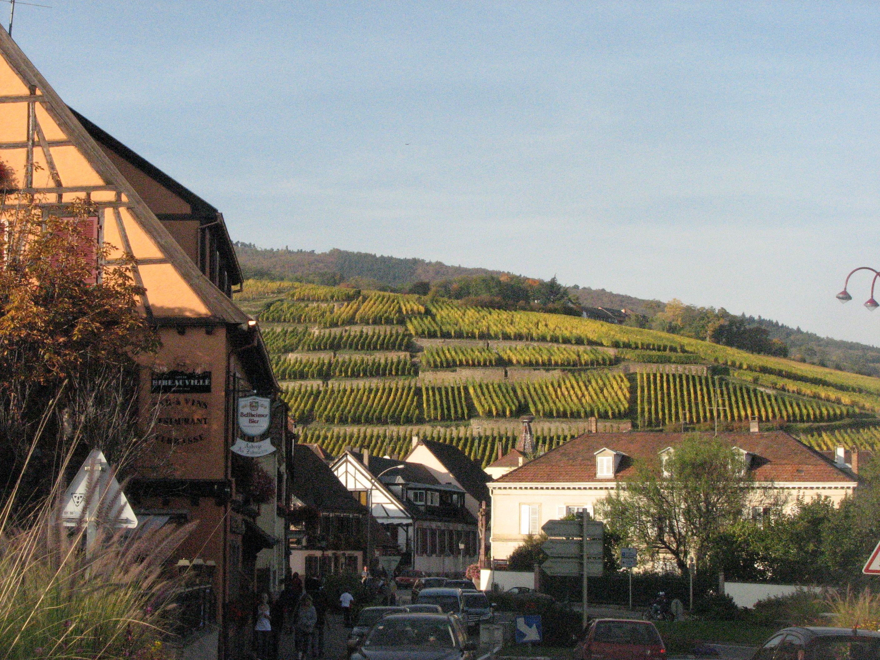 View of central Ribeauvillé and vineyards next to the village. The Grand Cru vineyard Geisberg is in the centre of the image.